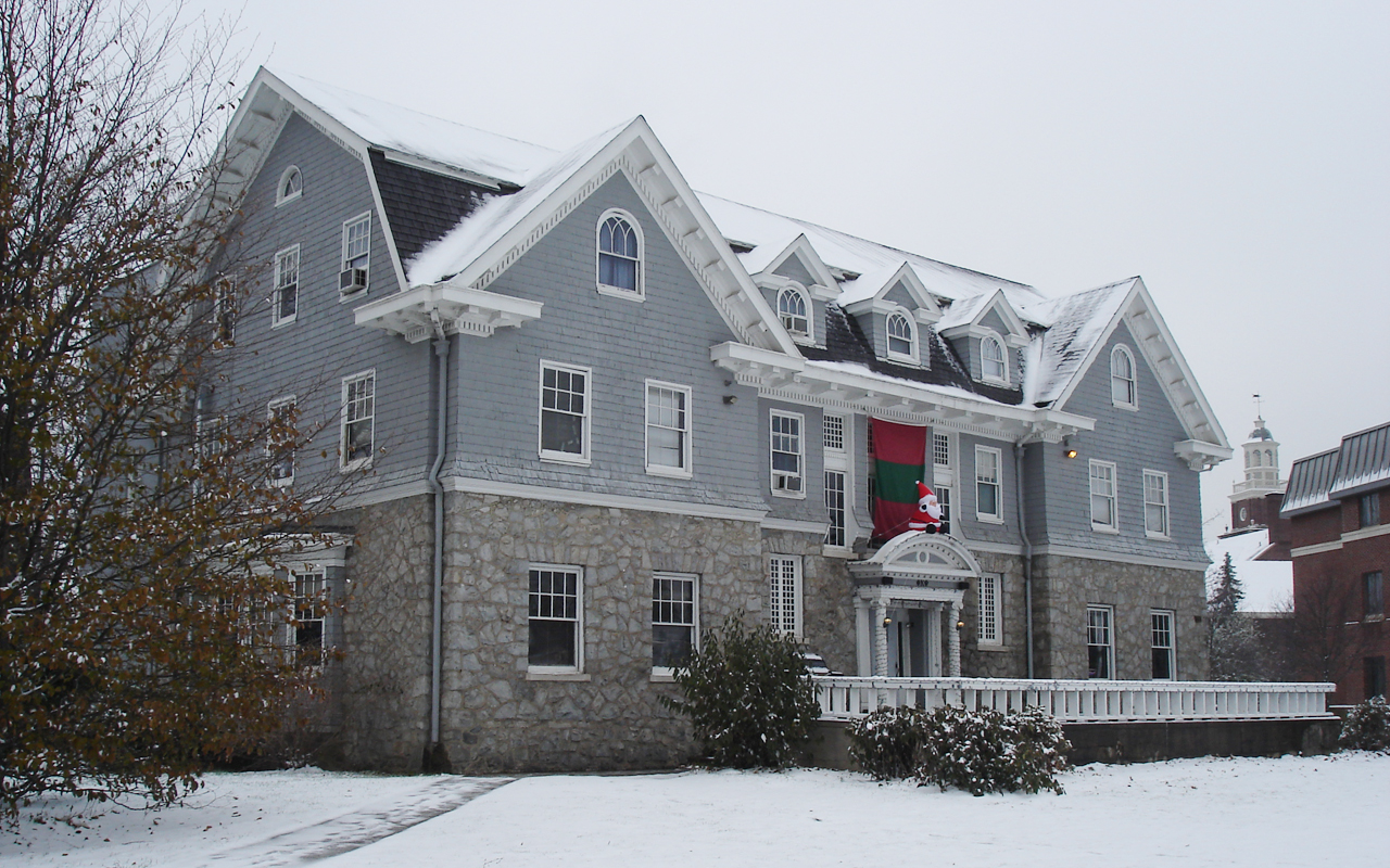 The Phi Kappa Psi fraternity house at Lafayette College in December 2005.